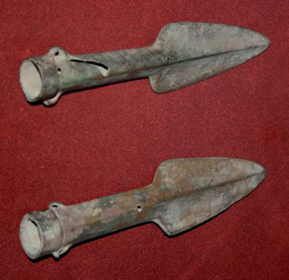 Bronze spearheads from the ancient Chinese Shang Dynasty